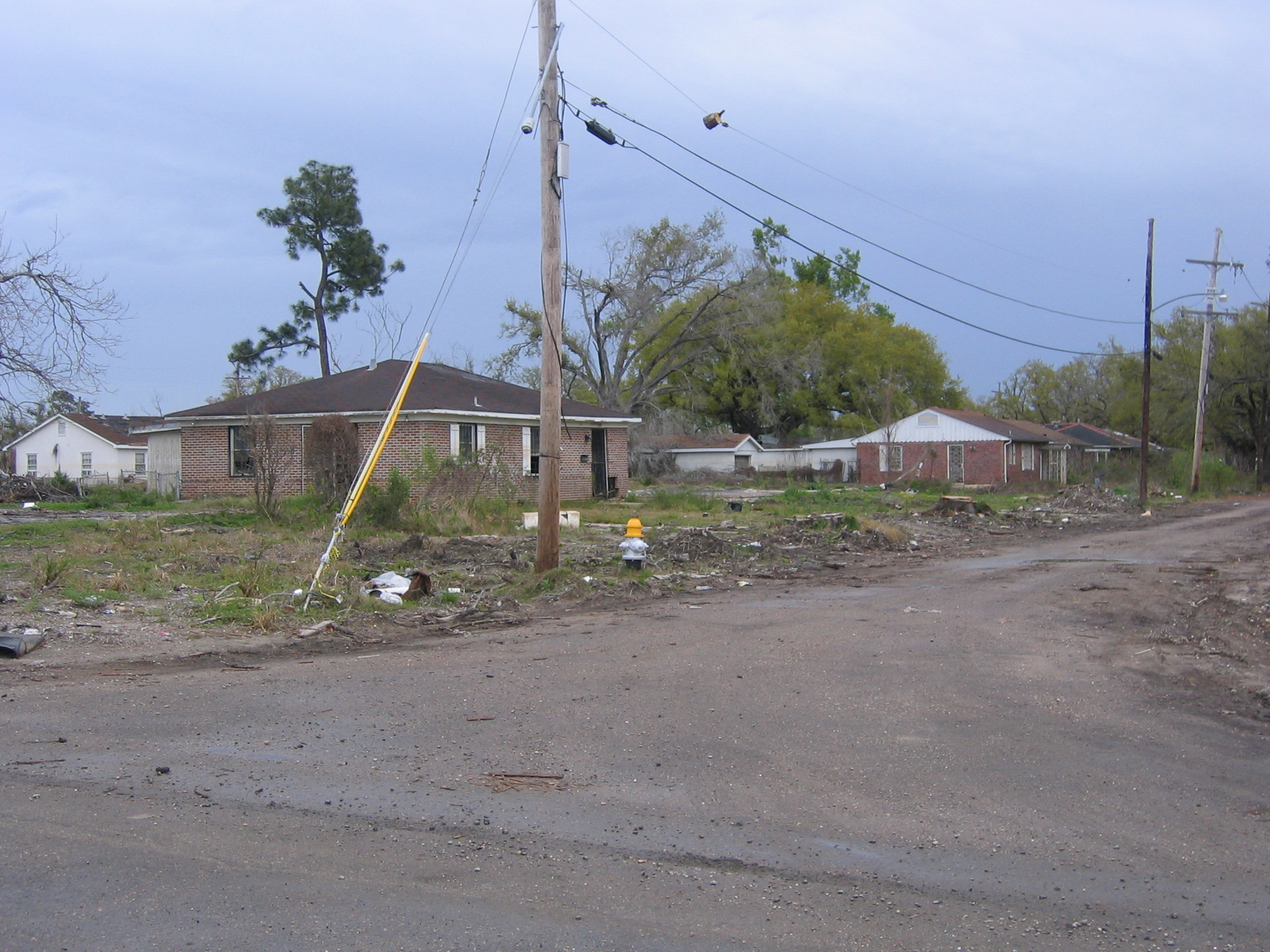 New Orleans at the corner of Wilton Drive and Warrington Drive, facing northeast, a block from one of the Katrina breaches in the London Avenue Canal floodwalls.